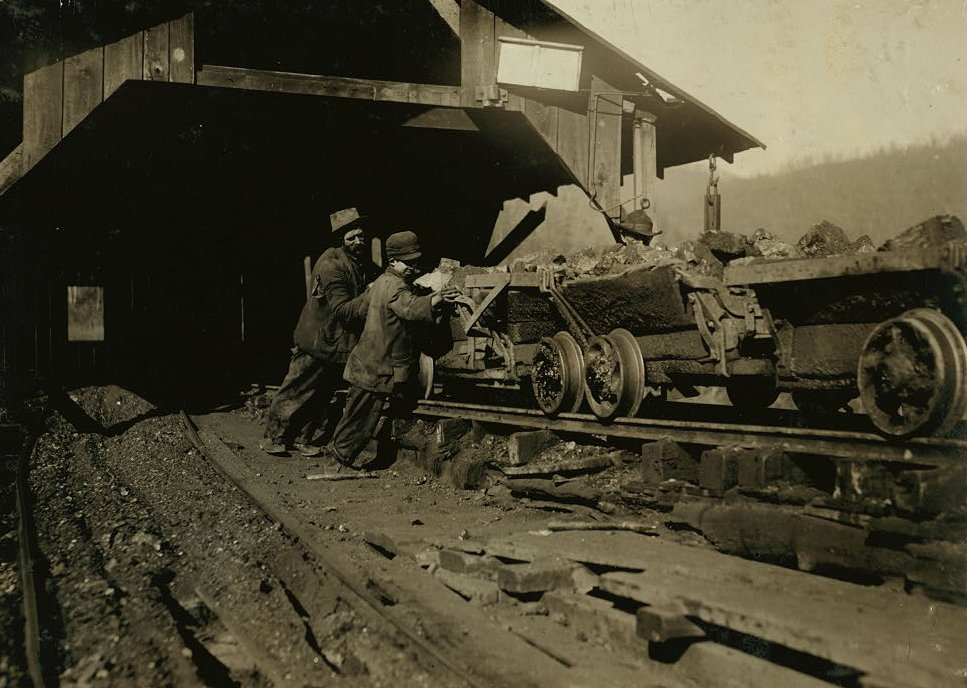 Harley Bruce, a young coupling-boy at tipple of Indian Mountain Line of Proctor Coal Co., near Jellico, Tenn. He appears to be 12 or 14 years old, and says he has been working there about a year. It is hard work and dangerous. Not many young boys employed in or about the mines of this region. Location: Jellico vicinity, Tennessee.